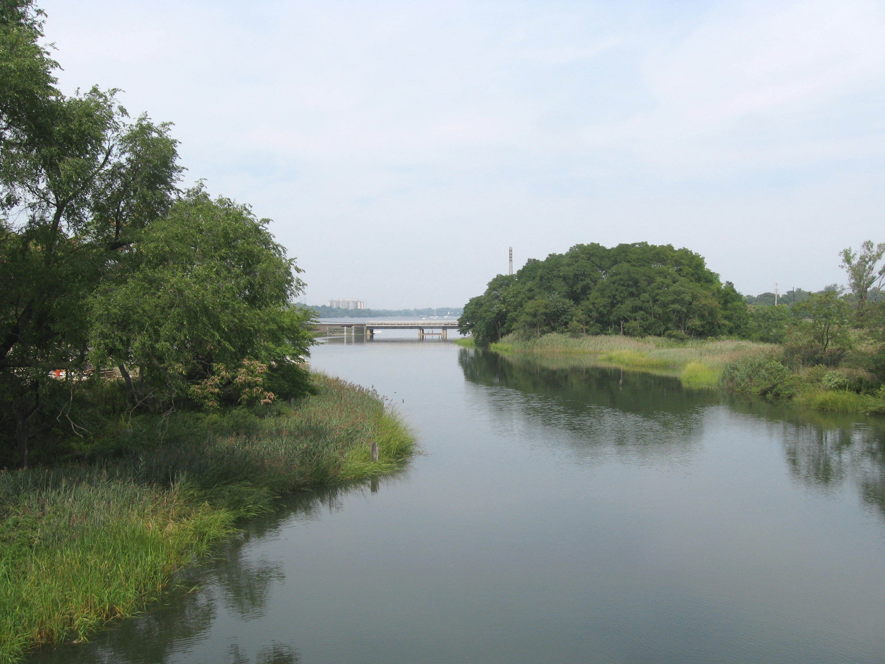 Looking north from Northern Boulevard along Alley Creek at high tide, flowing from Alley Pond Park. ZIP 11364.